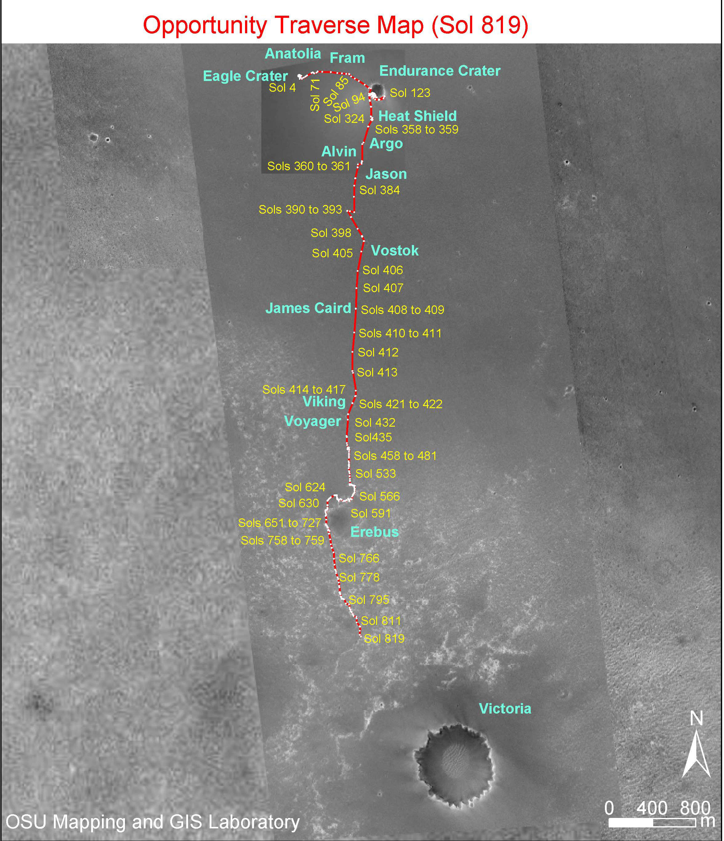 Opportunity rover sol 819 (14 May 2006) traverse map.